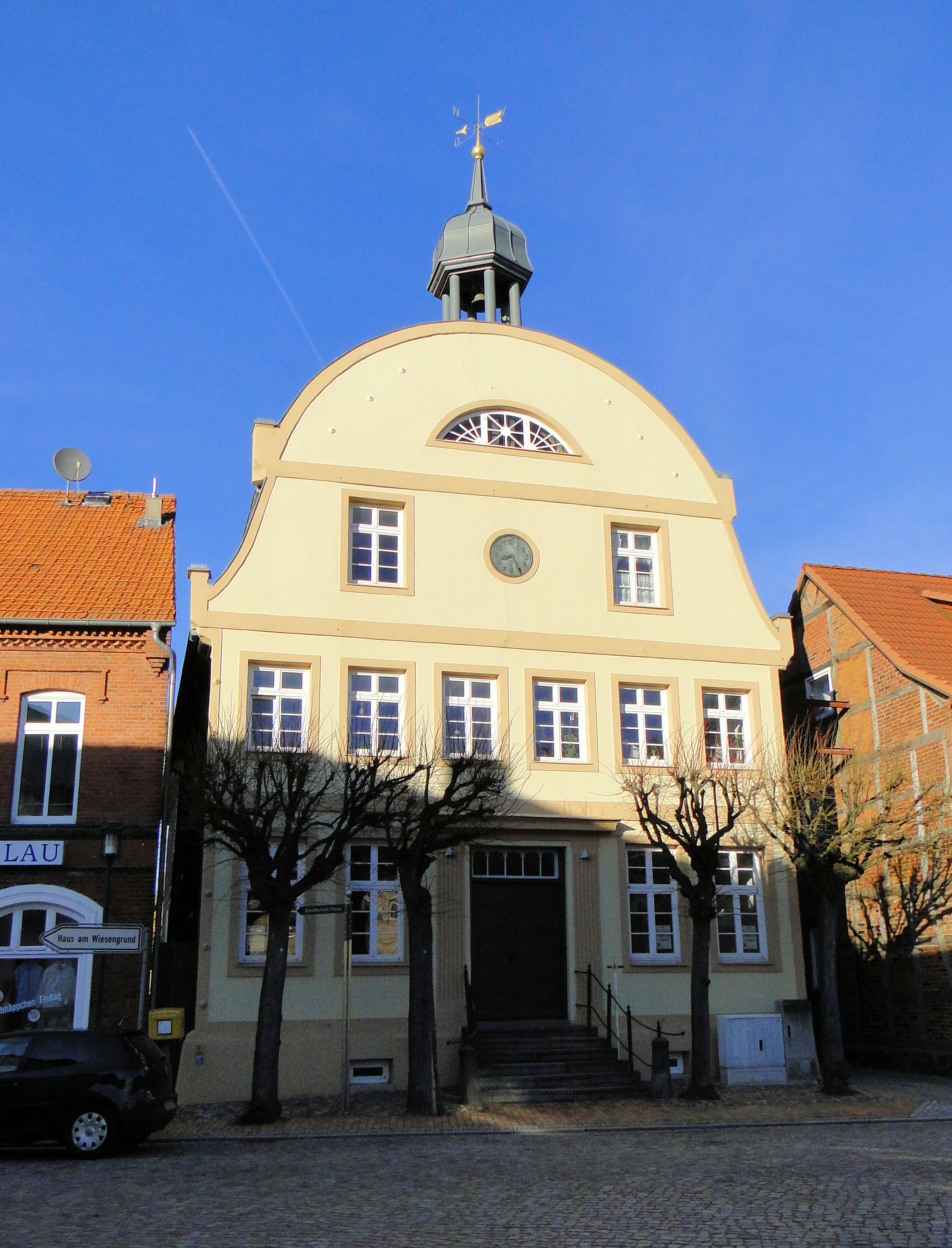 Former town hall in/near Rehna, district Nordwestmecklenburg, Mecklenburg-Vorpommern, Germany